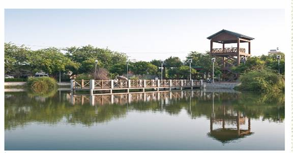 Niutiaowan